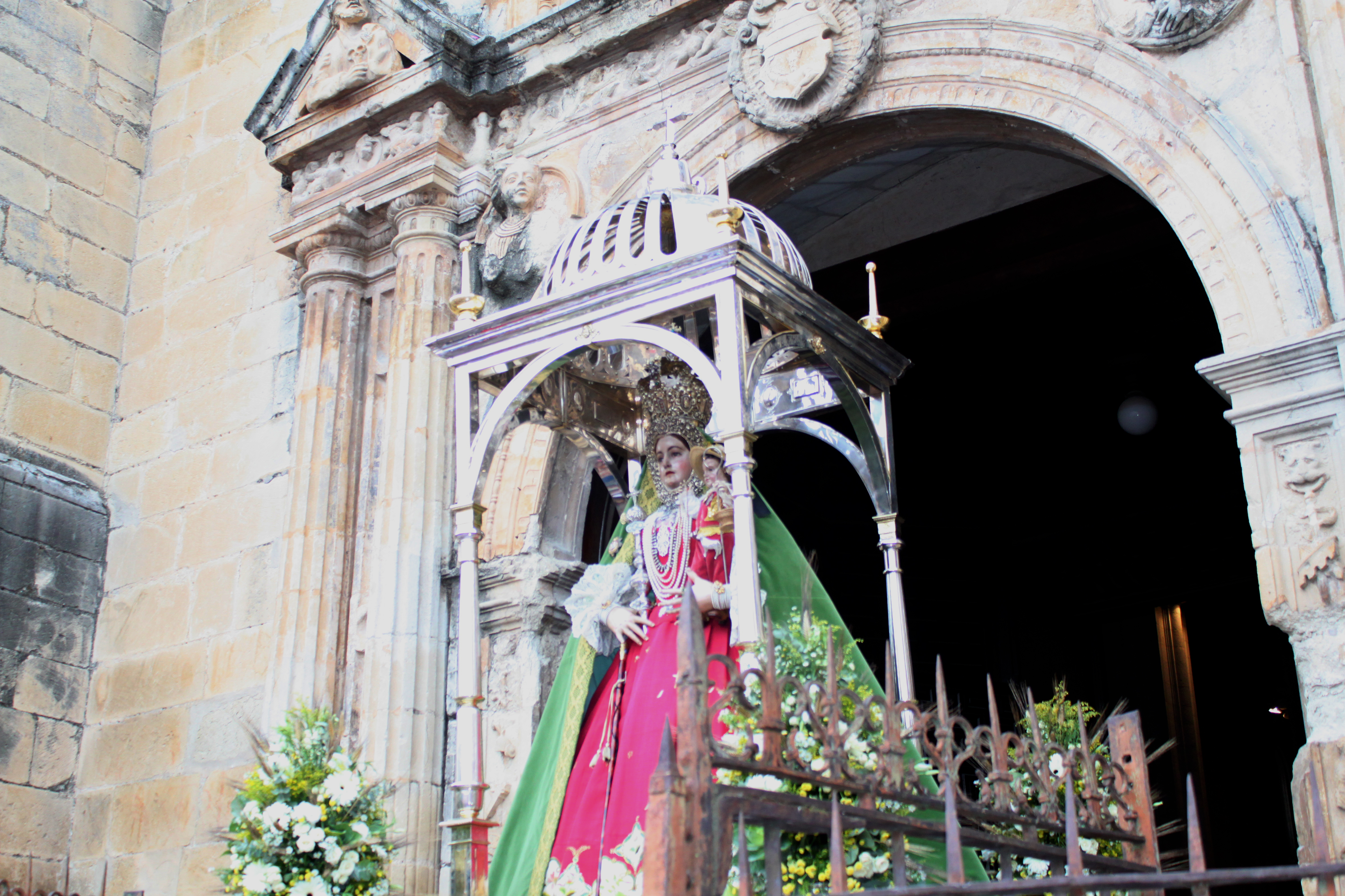 Our Lady of Araceli, of Lucena (Spain), at the romería de subida (upward pilgrimage), getting out of San Mateo church for her sanctuary. 450th anniversary of her coming to Lucena from Rome.